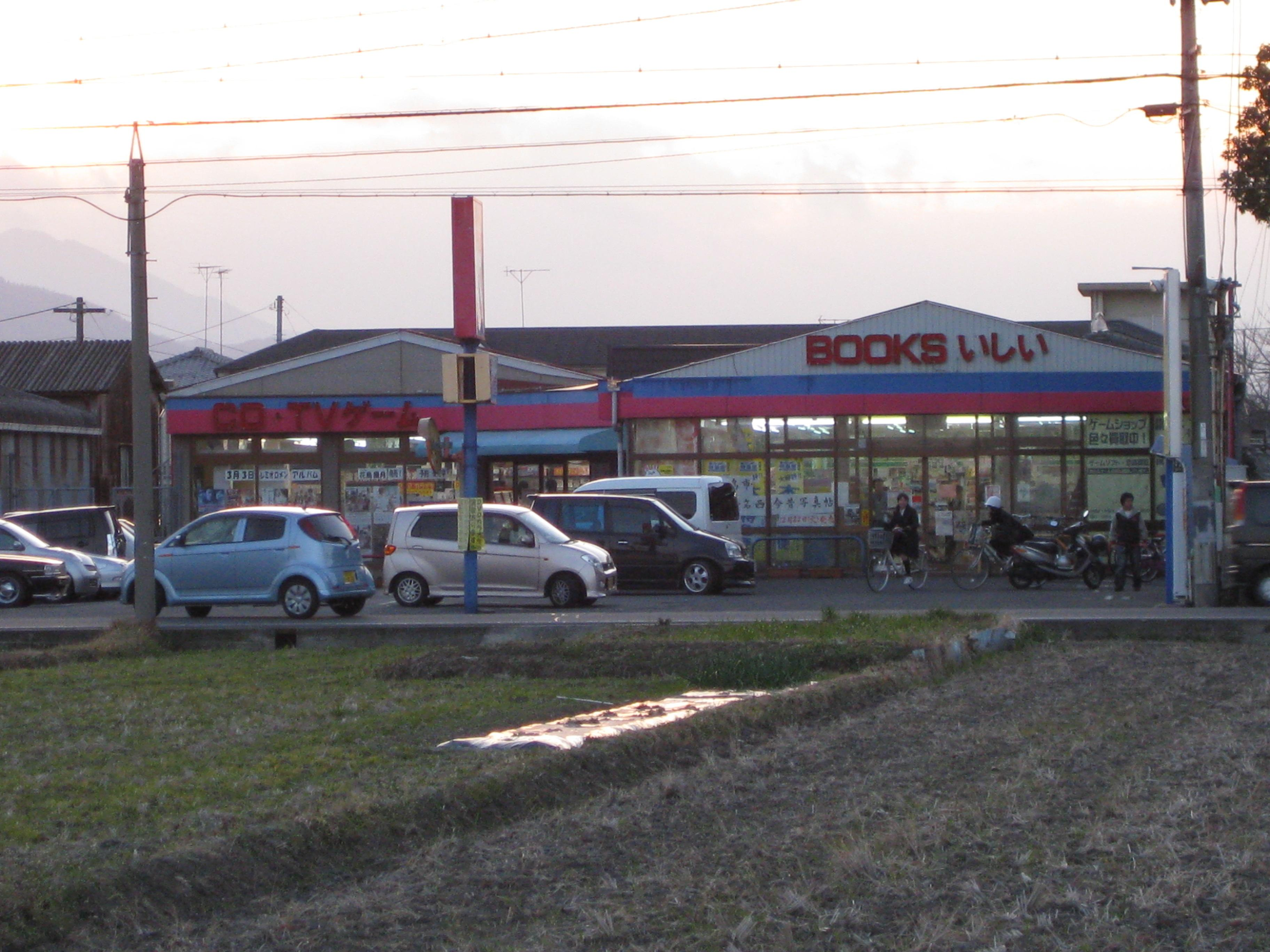 This is a picture of "Books Ishii".